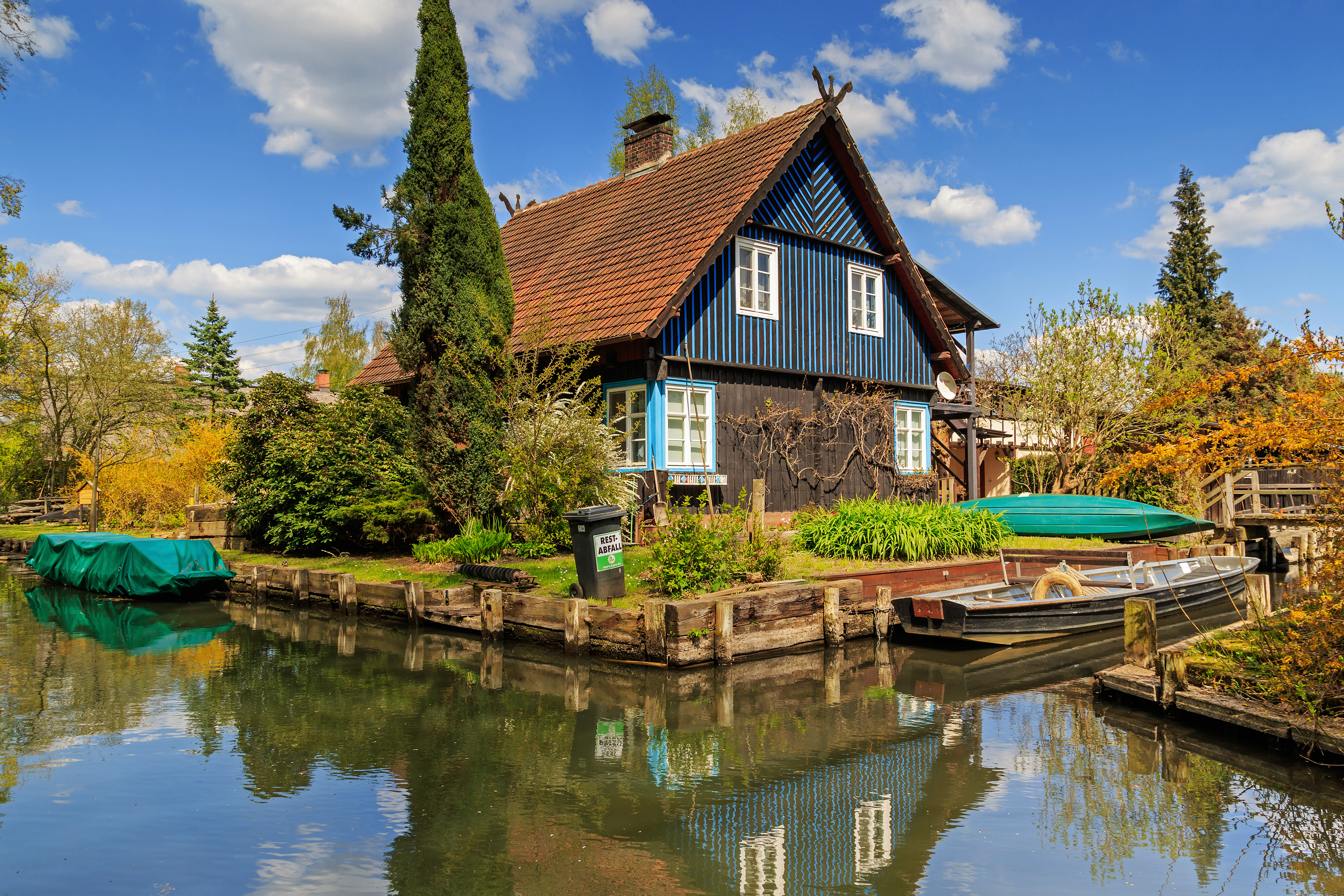 Lehde village in Lübbenau/Spreewald, Brandenburg, Germany